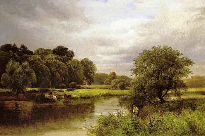 Fishing on the Trent near Anchor Church, Ingleby, Derbyshire (oil painting) by George Turner